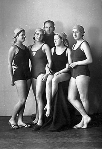 Above, Coach Zsigo Wertheimer with the most successful Hakoah Vienna swimmers. From left: Judith Deutsch, Hedy Bienenfeld, Fritzi Loewy and Luci Goldner